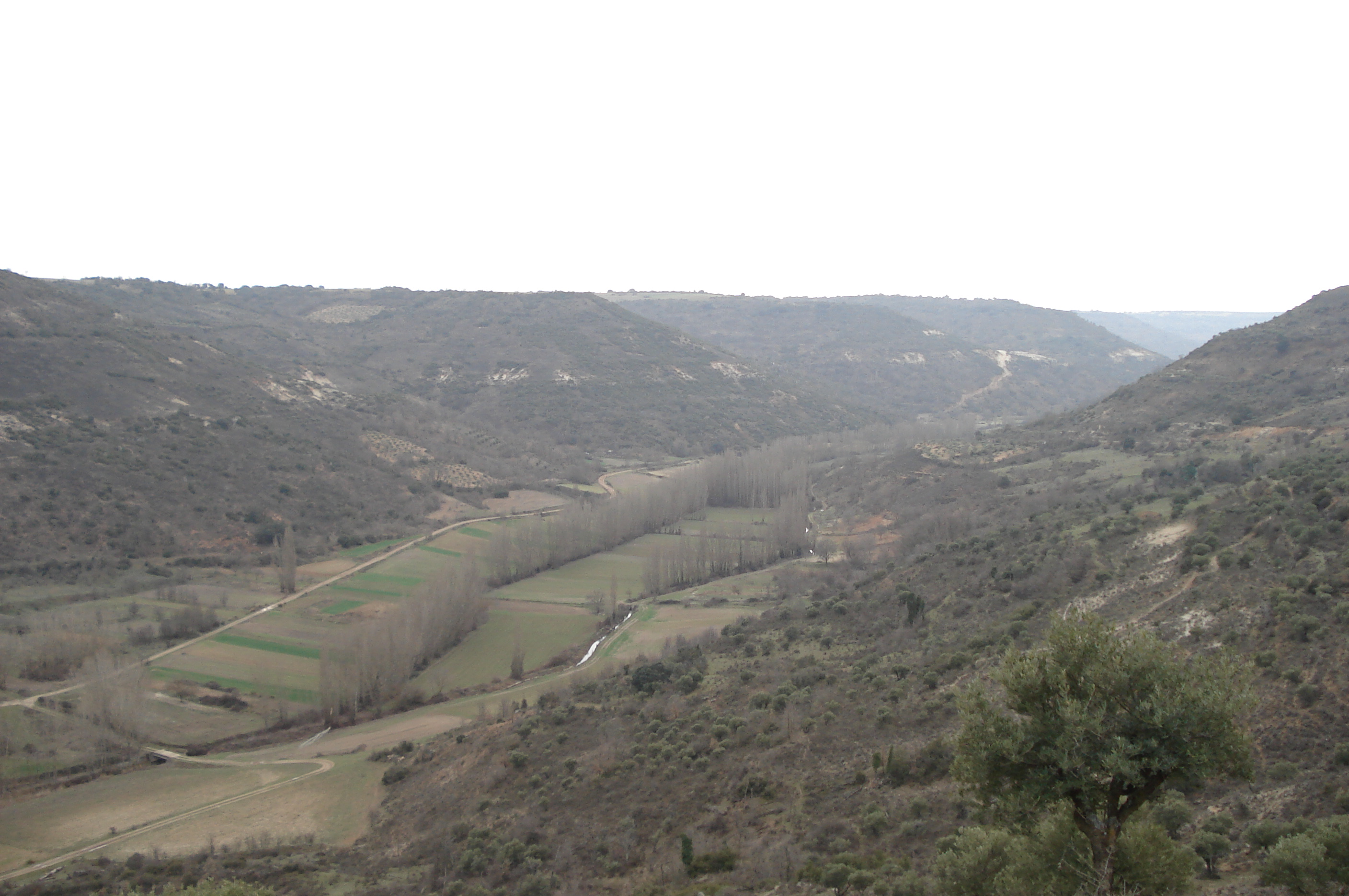 Ungría river between Atanzón and Valdeavellano